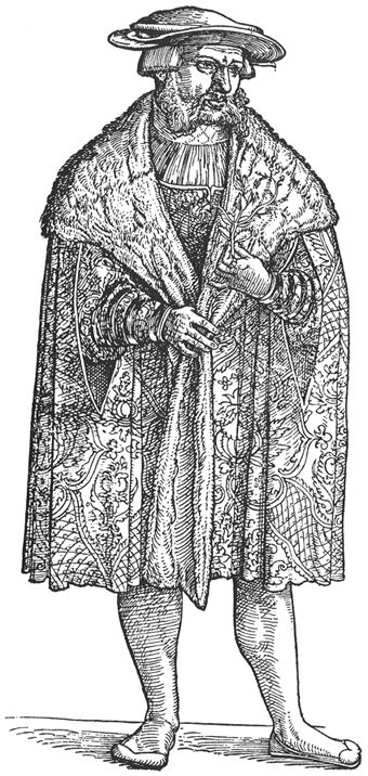 Leonhart Fuchs at the age of 42 years